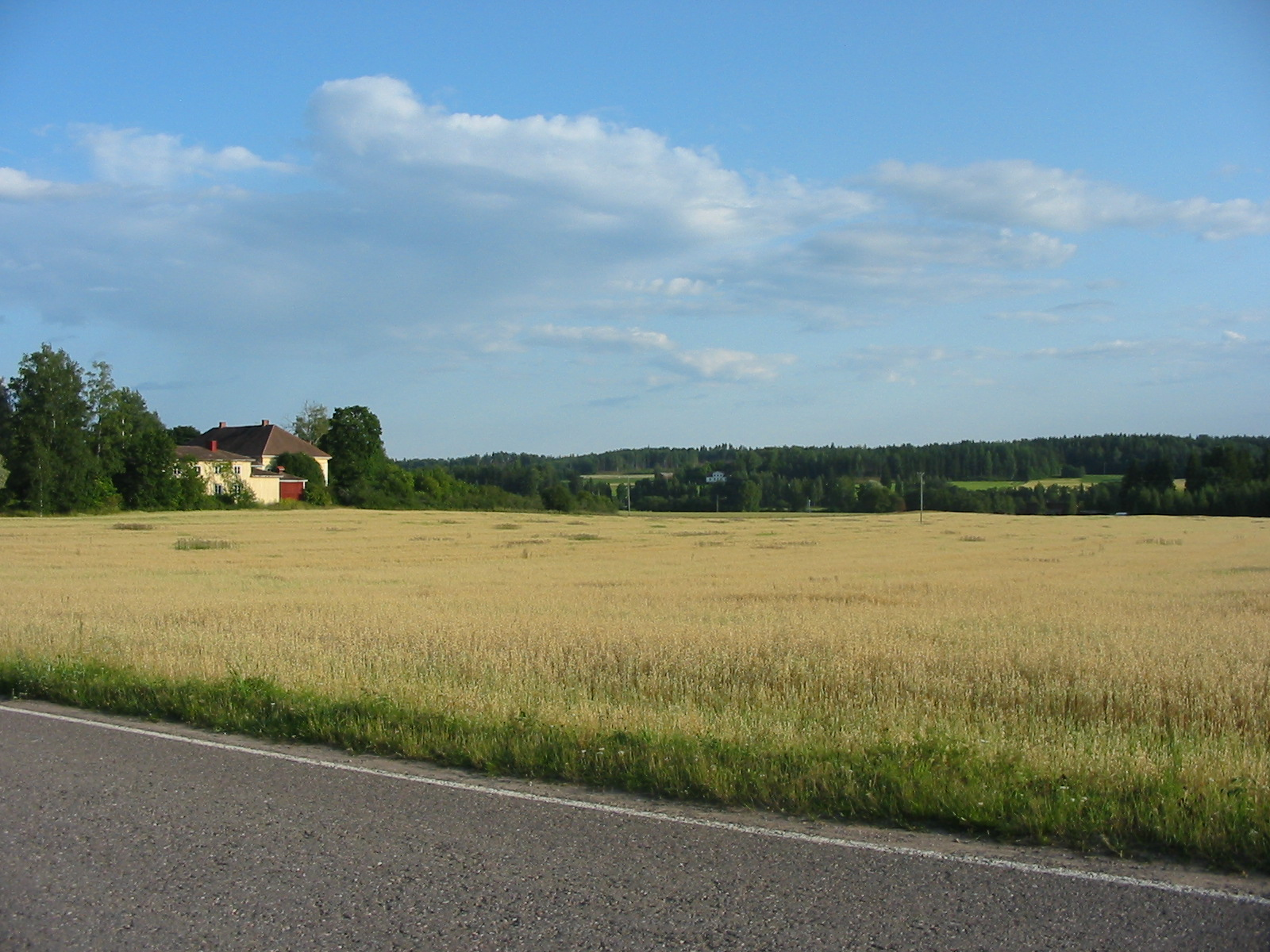 Hirsjärvi and Seeteri Manor houses in Hirsjärvi, Somero, Finland. Hirsjärvi left, Seeteri right behind the lake.